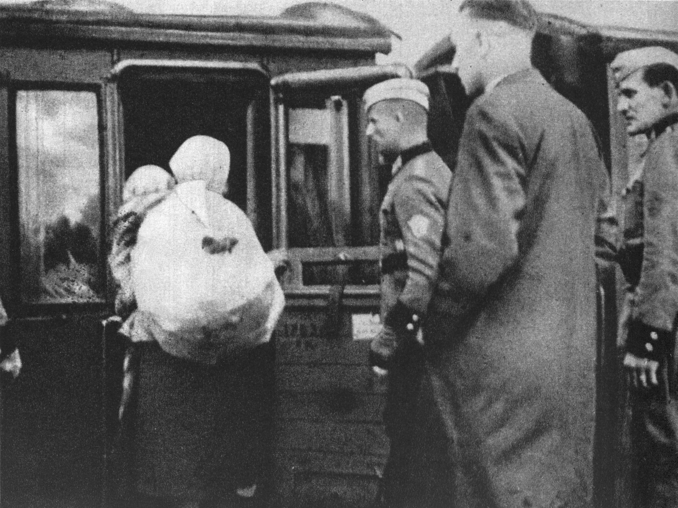 The mass expulsion of 18-20,000 Poles from the territory of Żywiec County (codename: “Aktion Saybusch”), conducted by the Nazi-German occupants in autumn 1940.